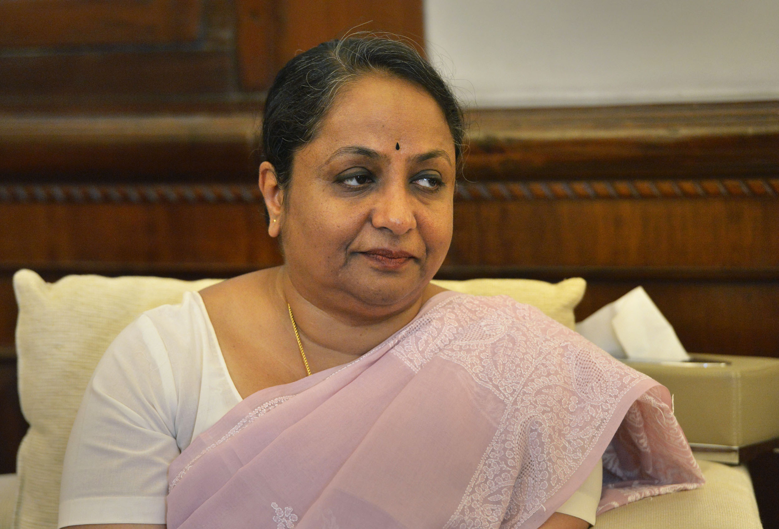 Indian Foreign Secretary Sujatha Singh listens as U.S. Deputy Defense Secretary Ash Carter meets with her at South Block in New Delhi, Sept. 17, 2013.